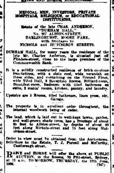 Advertisement for the sale of Durham Hall, Surry Hills, Sydney 1924